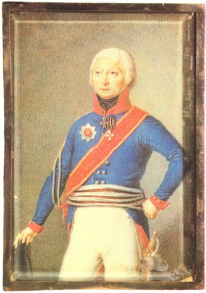 Nikolay Nikolaevich Mazovsky (1756—1807) russian general